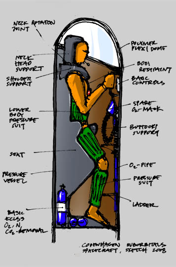 Basic sketch for Tycho Brahe MSC